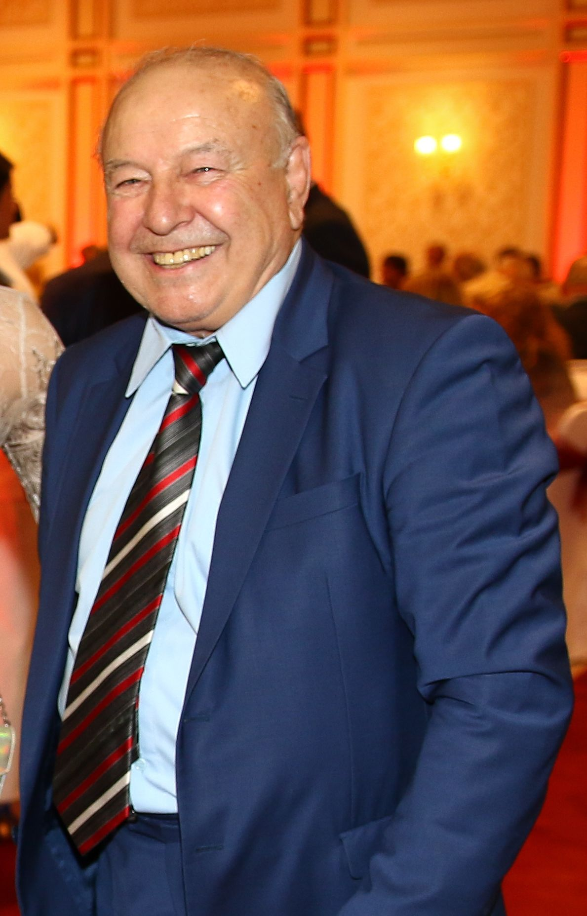 Academician Alexander Balkanski - Bulgarian circus actor, founder of the Balkanski Circus.